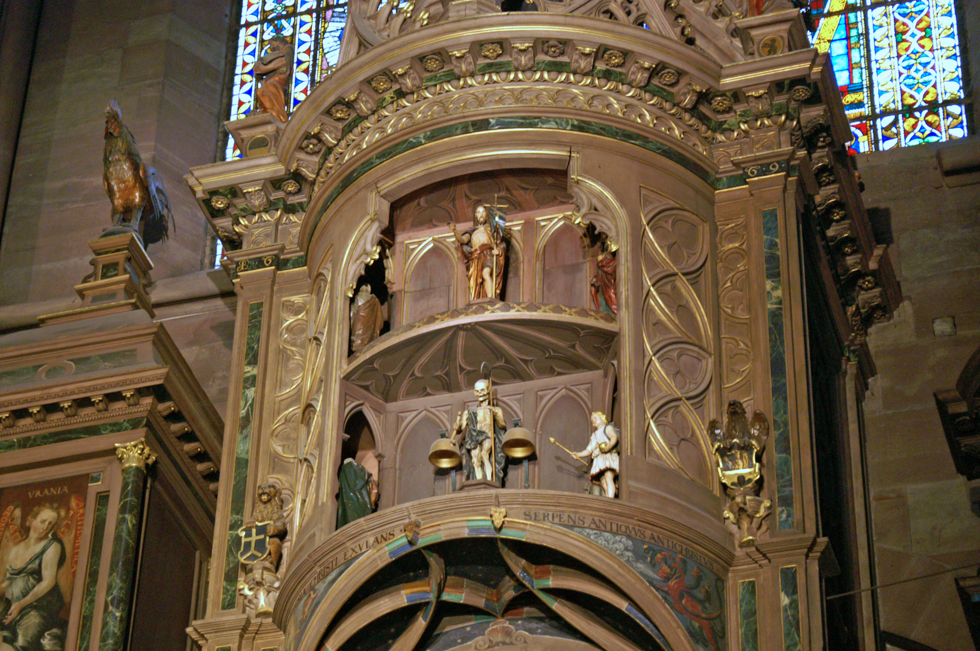 Astronomical Clock - Cathedral Notre-Dame de Strasbourg - Details - France